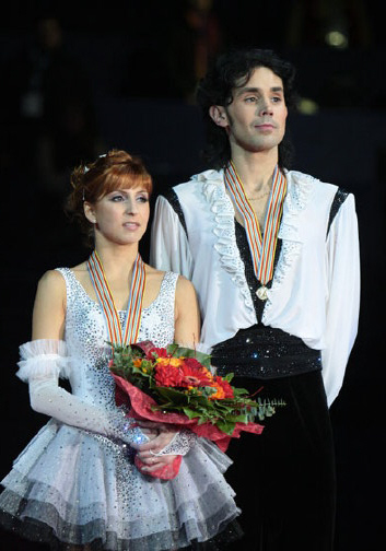 Jana KHOKHLOVA & Sergei NOVITSKI (RUS) on the podium at the 2009 European Figure Skating Championships